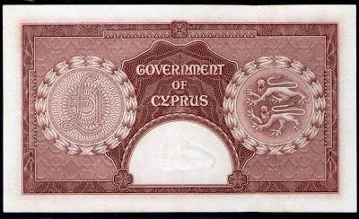 Verso image of Cyprus one pound note from British colonial period.